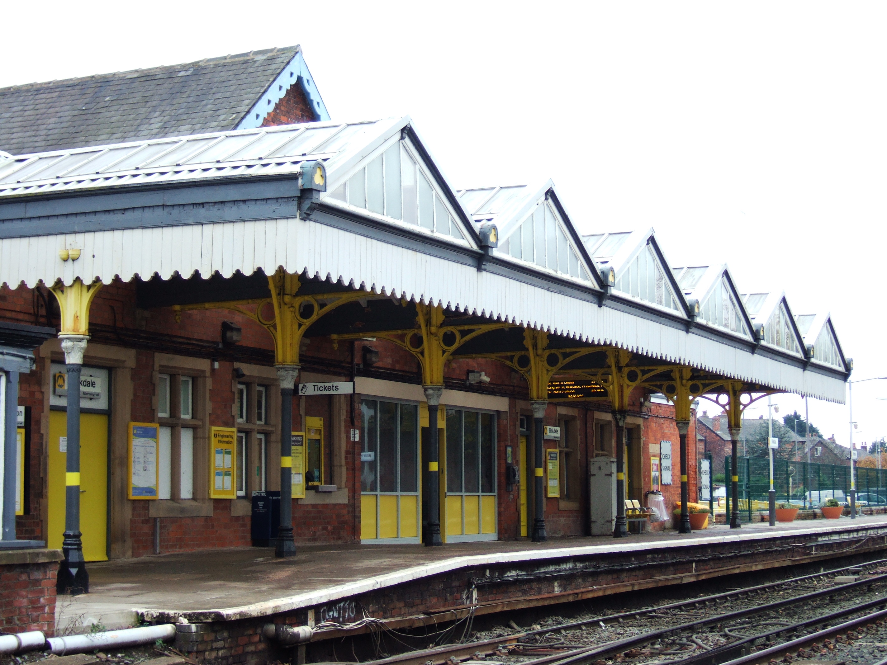 Birkdale railway station, in Birkdale, Merseyside, England.